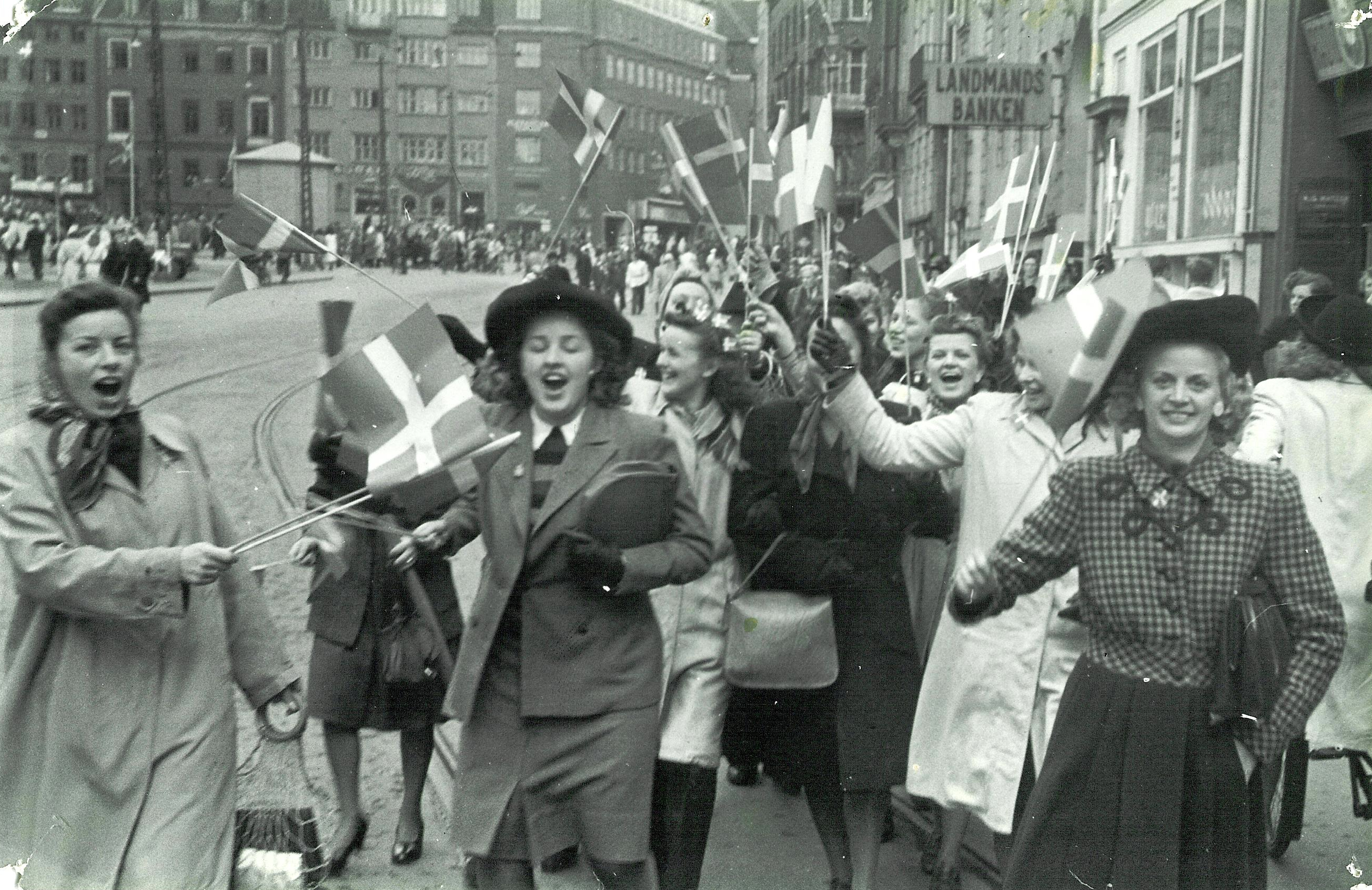 People celebrating the liberation of Denmark. 5th May 1945. At Strøget in Copenhagen.